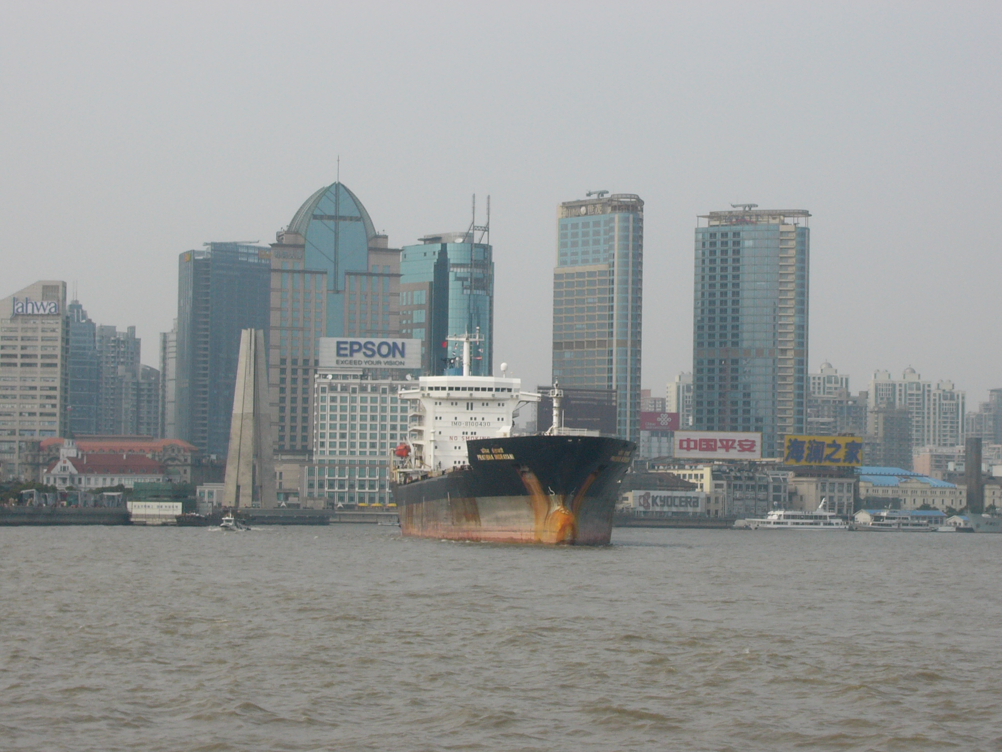 The PRATIBHA INDRAYANI at Hang Po River Shanghai IMO Number: 8100430 MMSI Number: 419558000 Callsign: AUJP Length: m Beam: m